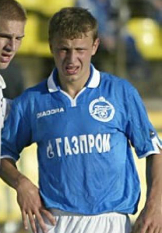 Dmitry Makarov in action for FC Zenit St. Petersburg